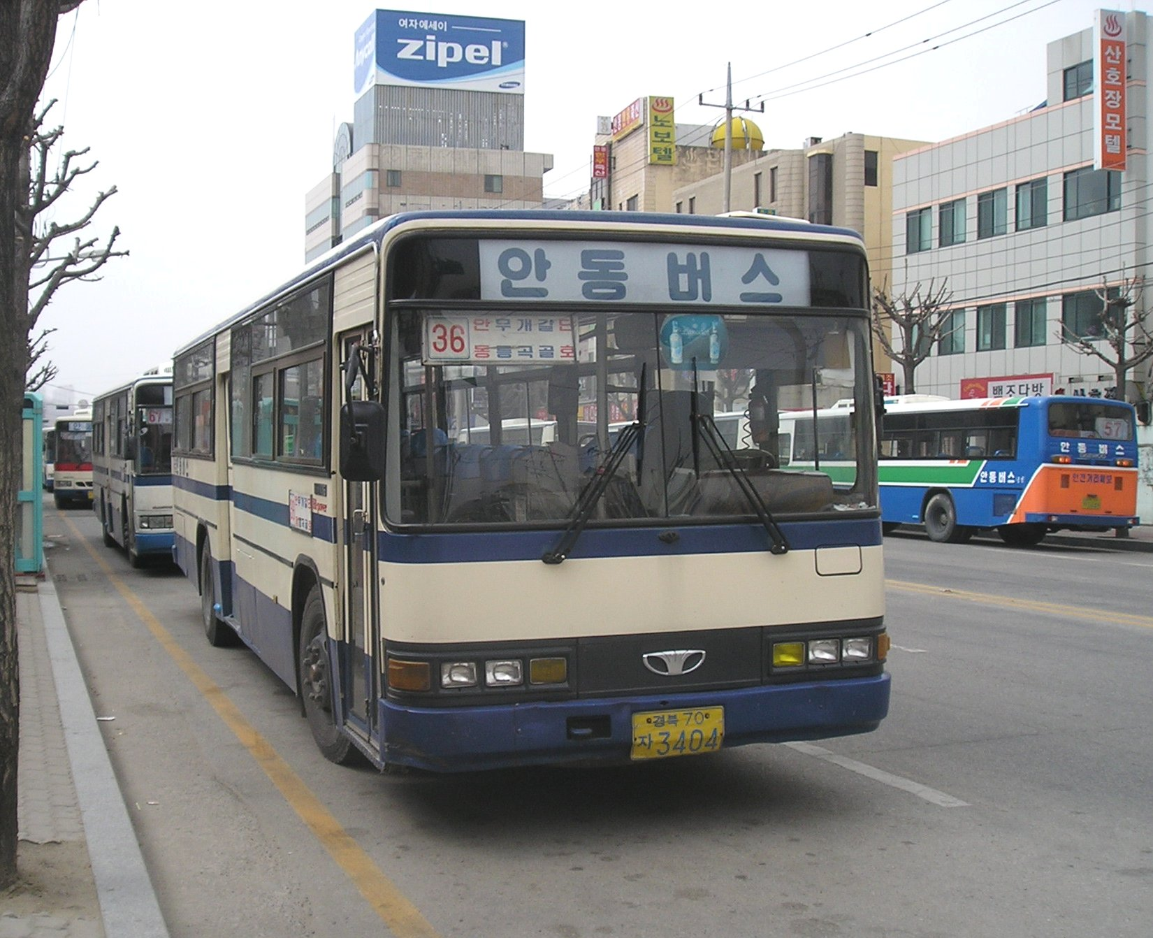 The Andong City bus route 36.